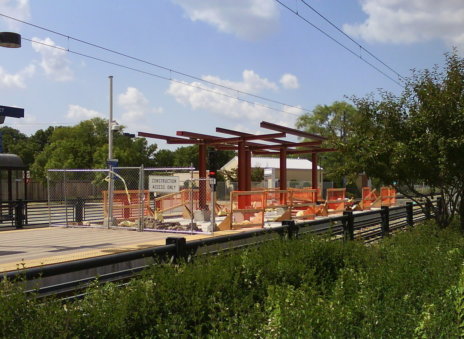 The 38th Street Light Rail Station in Minneapolis, Minnesota with the expansion that allows for a third train car to use the station going on. Facing South along Hiawatha Avenue. Facing north along Hiawatha Avenue.